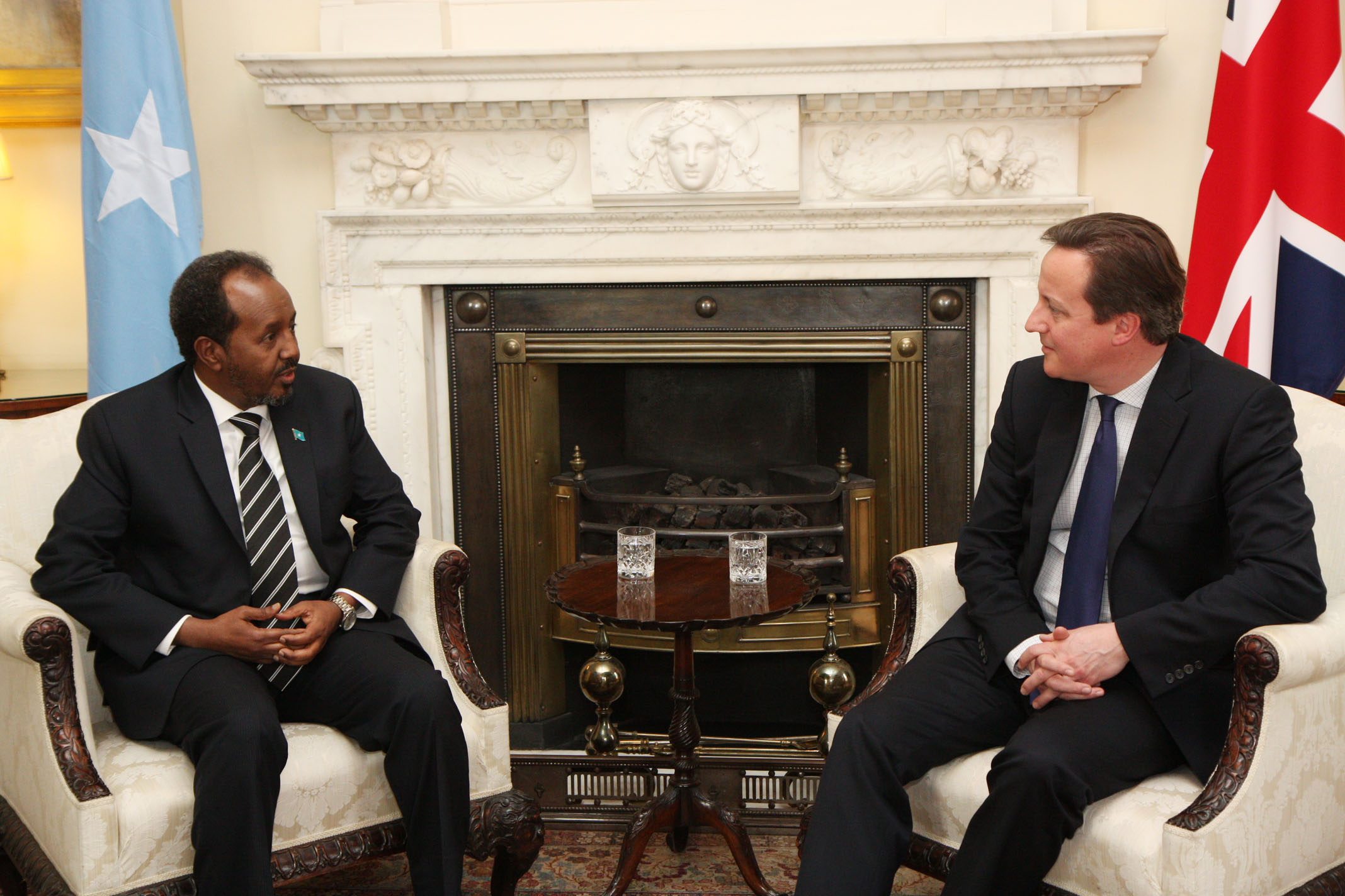 Prime Minister David Cameron with H.E. Mr Hassan Sheikh Mohamud, President of the Federal Republic of Somalia in Downing Street, 4 February 2013.